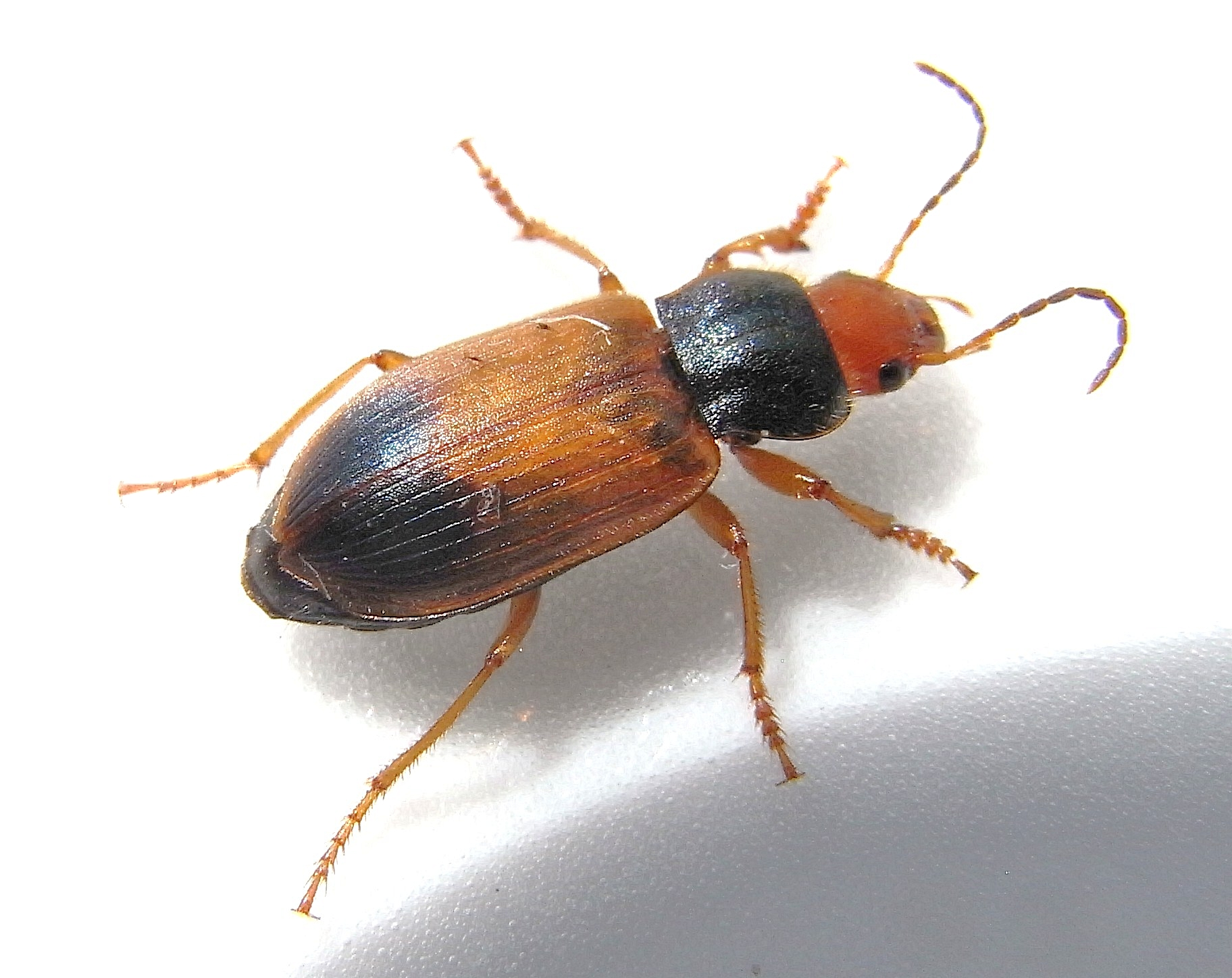 Diachromus germanus from Hungary at 2010-05-25 near Csanadalberti